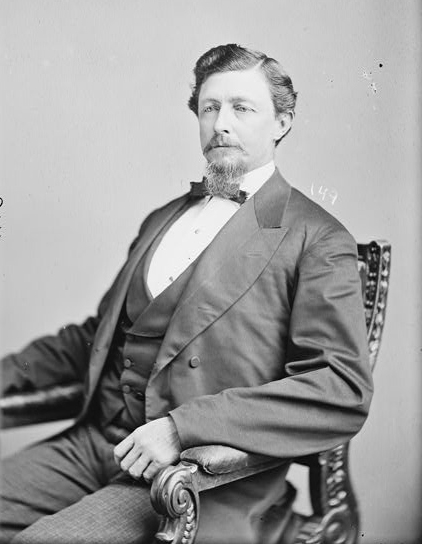 Morgan Rawls. Rawls, Hon. Morgan of Ga., Col. of 54th Ga. Inf., C.S.A. B. in Bulloch Co. Ga. June 1829. Engaged in agricultural pursuits. Enlisted in Conf. Army 1861 - Capt. of inf. Colonel of 54th Ga. Vol. Inf. 1862. Member state H. of R. 1863 - 65 - 68 - 72.""